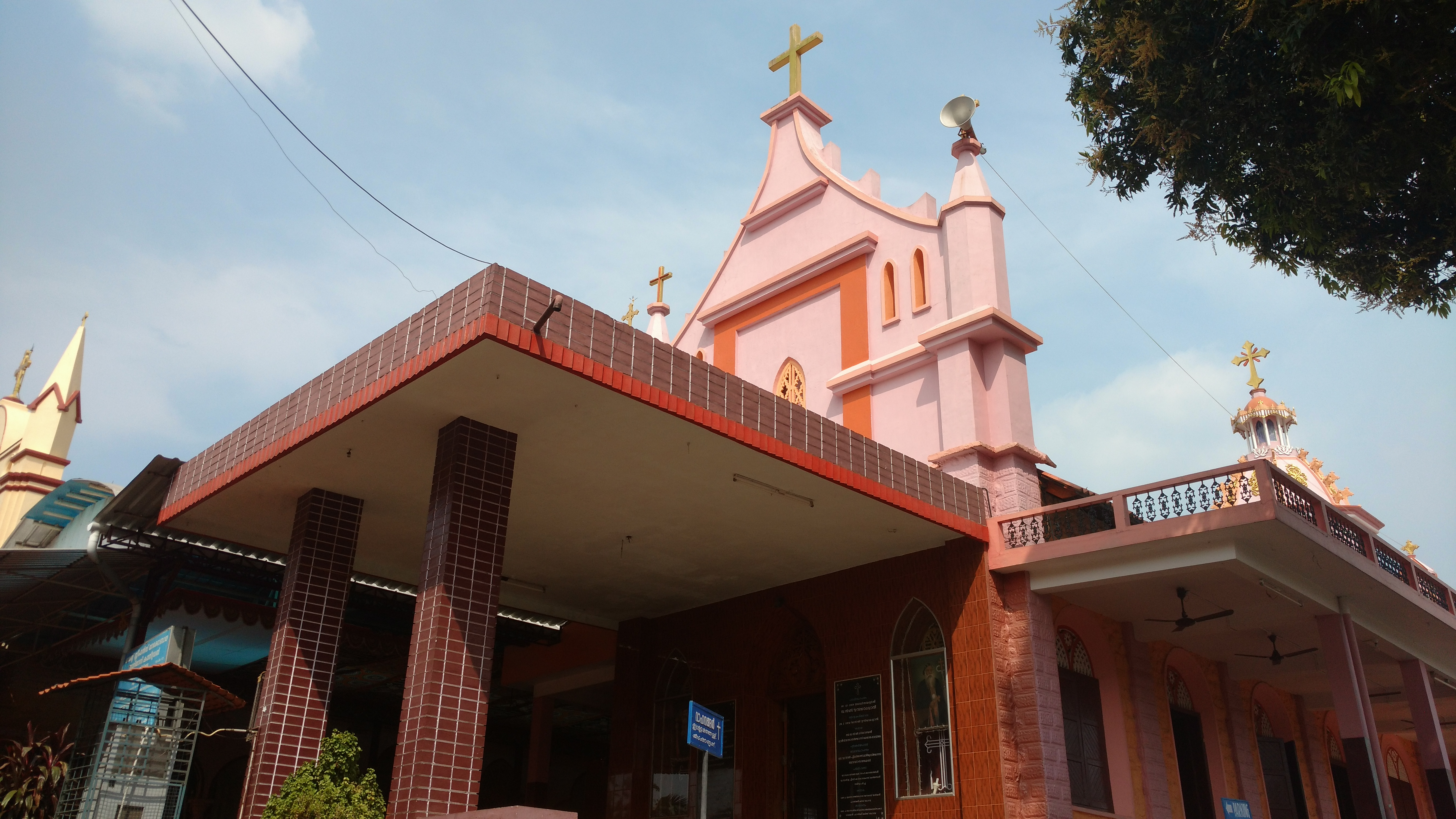 One of the two churches of Dayro. The tomb church can be seen on the left.